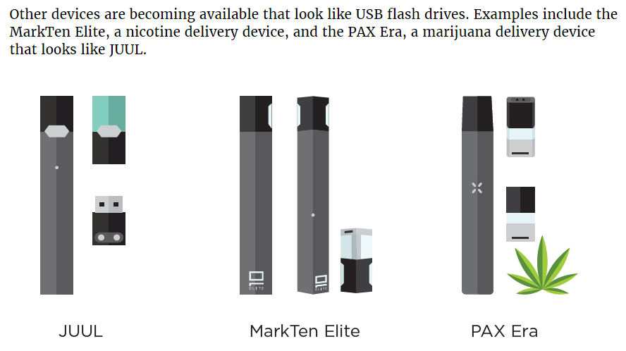 E-cigarettes Shaped Like USB Flash DrivesOther devices are becoming available that look like USB flash drives. Examples include the MarkTen Elite, a nicotine delivery device, and the PAX Era, a marijuana delivery device that looks like JUUL.